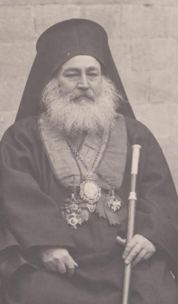 Maxim of Plovdiv in 1924